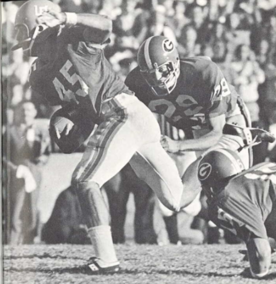 Carlos Alvarez playing in the November 7, 1970 games against the University of Georgia